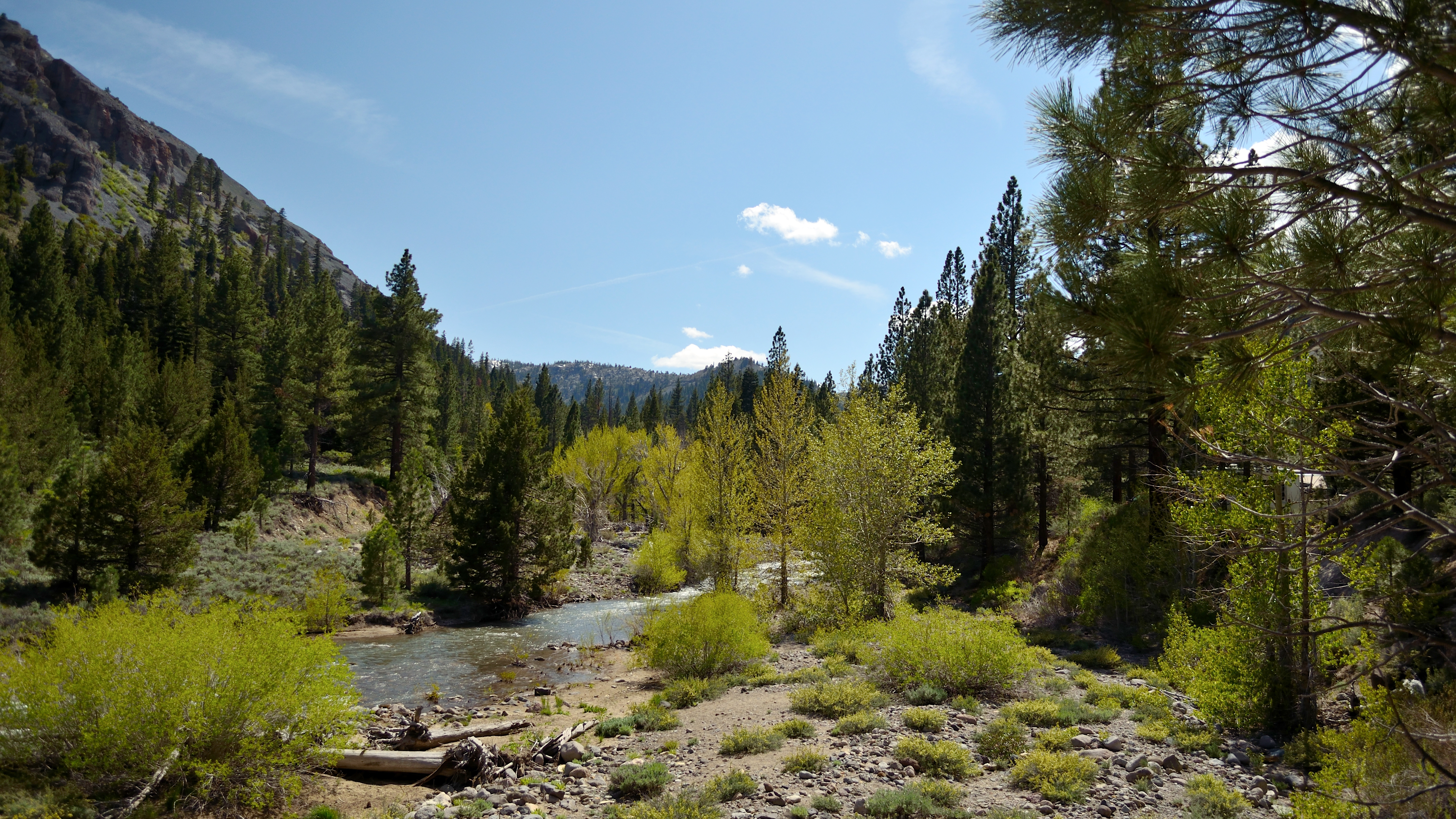 Silver Mountain 04